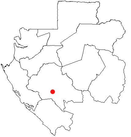 Mouila, Gabon Location Map, created with the GIMP. Kaart van Mouila, provinciehoofdstad van Ngounié in Gabon.